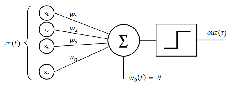 Perceptron